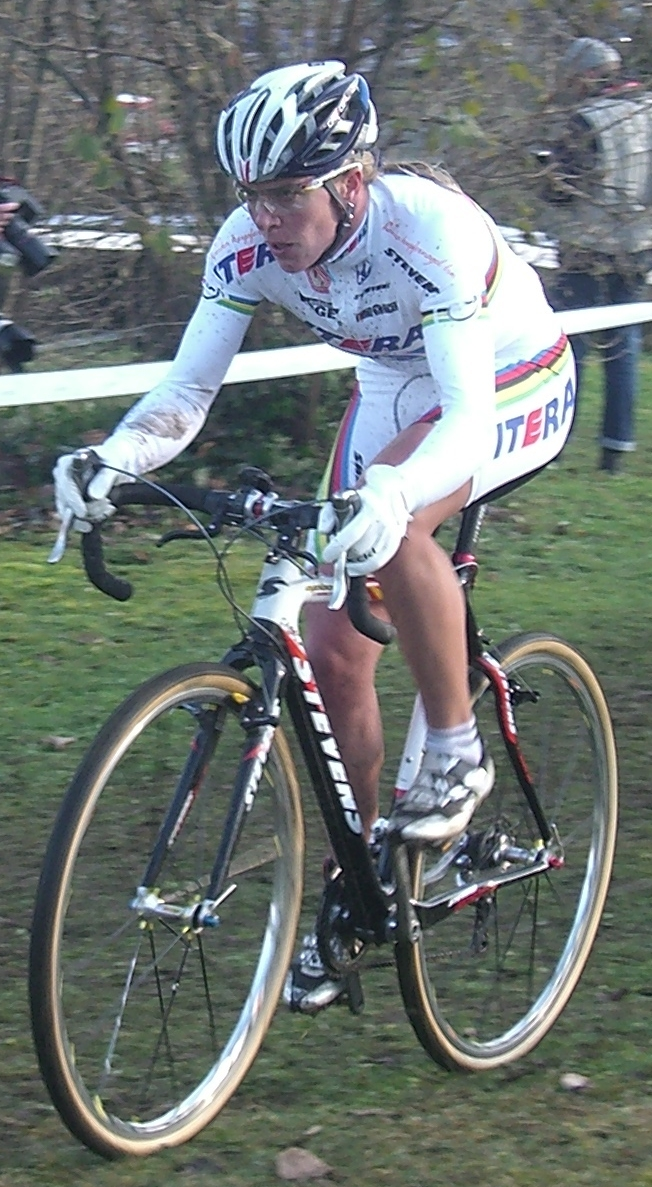 Professional cyclist and four-time world champion Hanka Kupfernagel racing a cyclocross race in Frankfurt, Germany